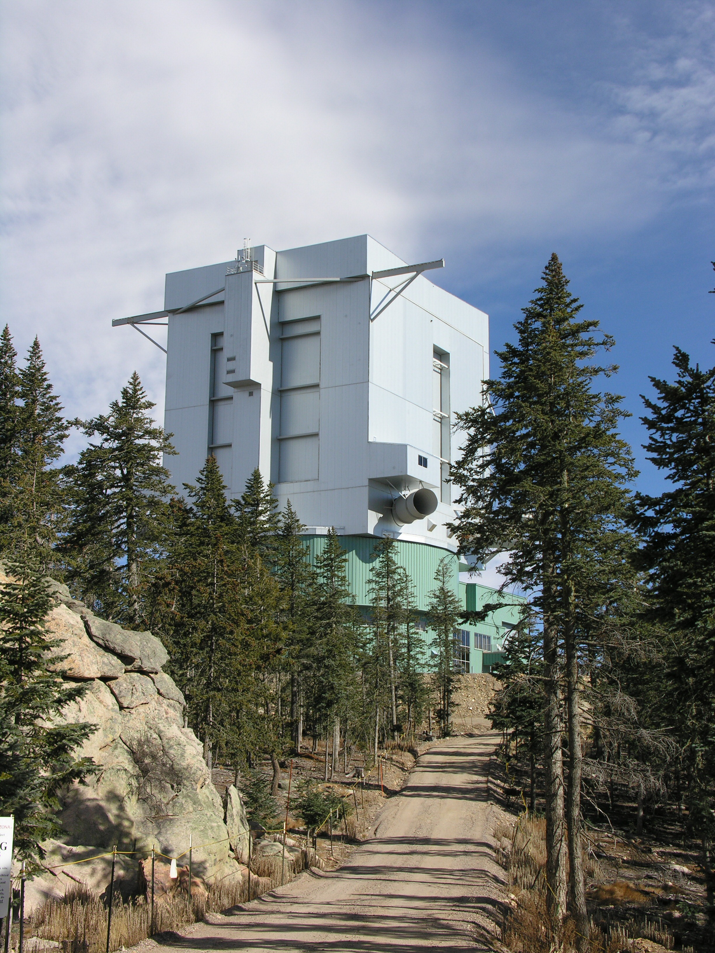 Large Binocular Telescope - November 2006